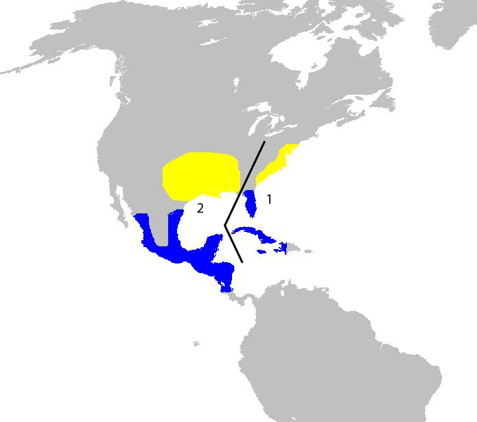 Painted Bunting distribution. Passerina ciris ciris Passerina ciris pallidior Yellow: summer Blue: winter Reference: Battey, C. J. et al. (2018). A Migratory Divide in the Painted Bunting (Passerina ciris). The American Naturalist 191 (2): 259-268.